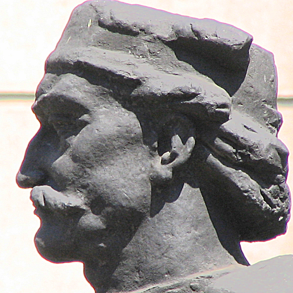 Vasa Čarapić monument, Belgrade